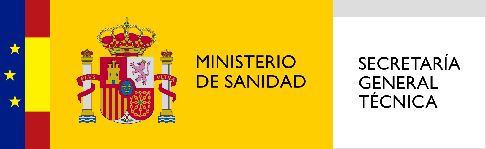 Logo of the General Technical Secretariat of the Spanish Ministry of Health